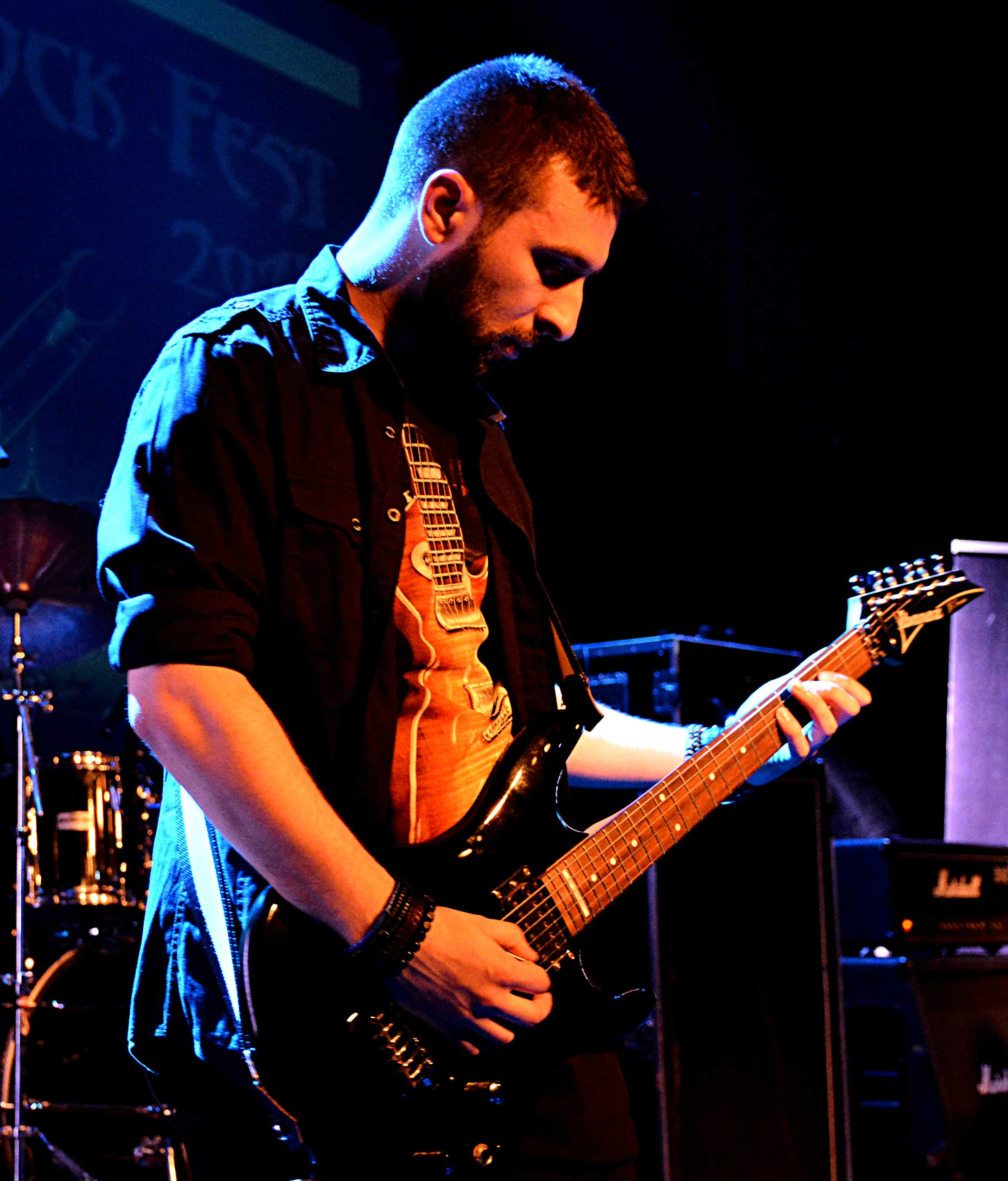 Patrias, heavy metal bend from Smederevo, Serbia